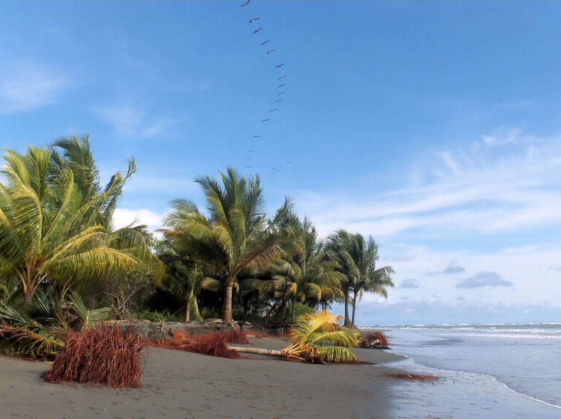 Ladrillero Beach